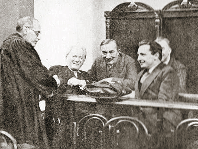 Herman Lieberman, Wincenty Witos and Stanisław Dubois , Warsaw 1931, Brest trial